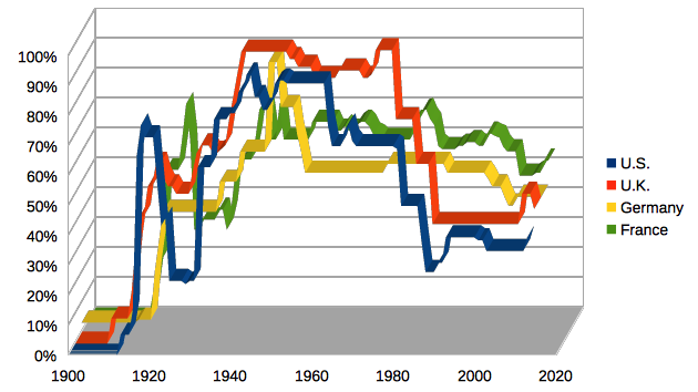 Income tax in historical perspective: top marginal rates in four industrial nations, 1900-2013. Data from T. Piketty, Capital in the Twenty-First Century, table 14.1 (files).